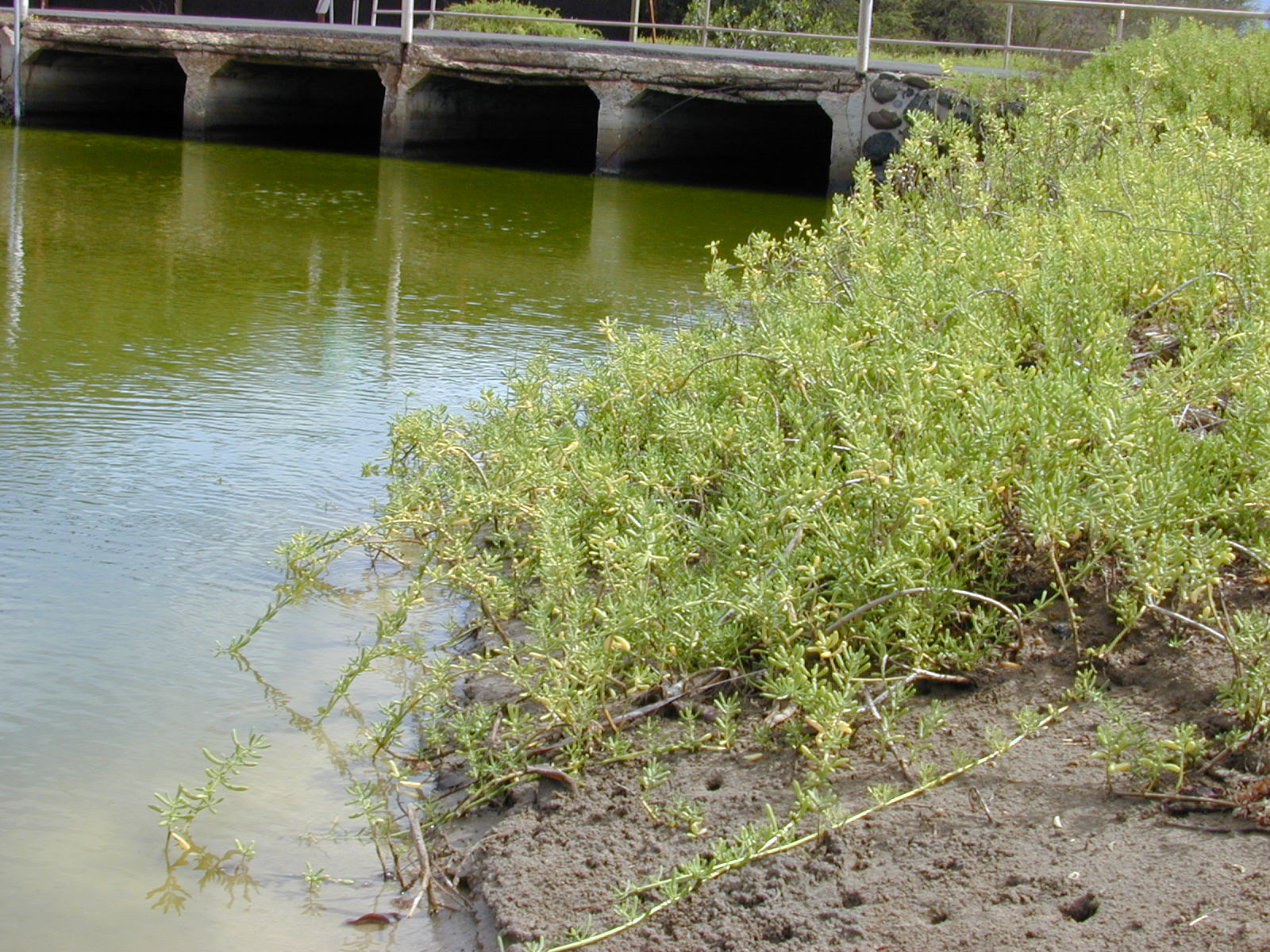 Batis maritima (at waters edge). Location: Maui, Kalepolepo